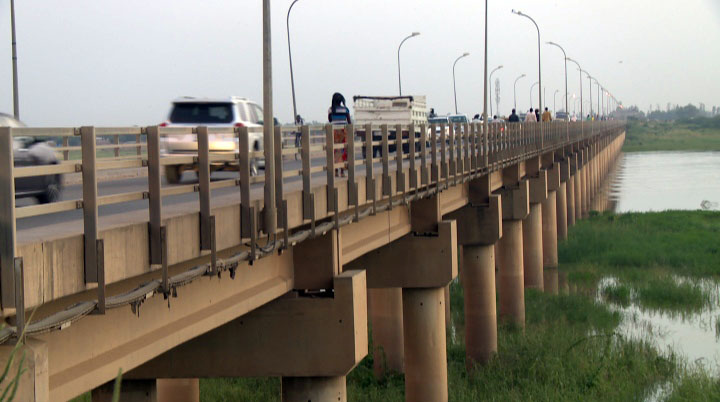 Un pont qui facilite la circulation des biens et des personnes entre le Tchad et le Cameroun 24h sur 24 This is an image with the theme "Africa on the Move or Transport" from: Chad